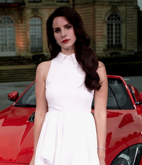 Lana Del Rey starring in the video for her song "Burning Desire".